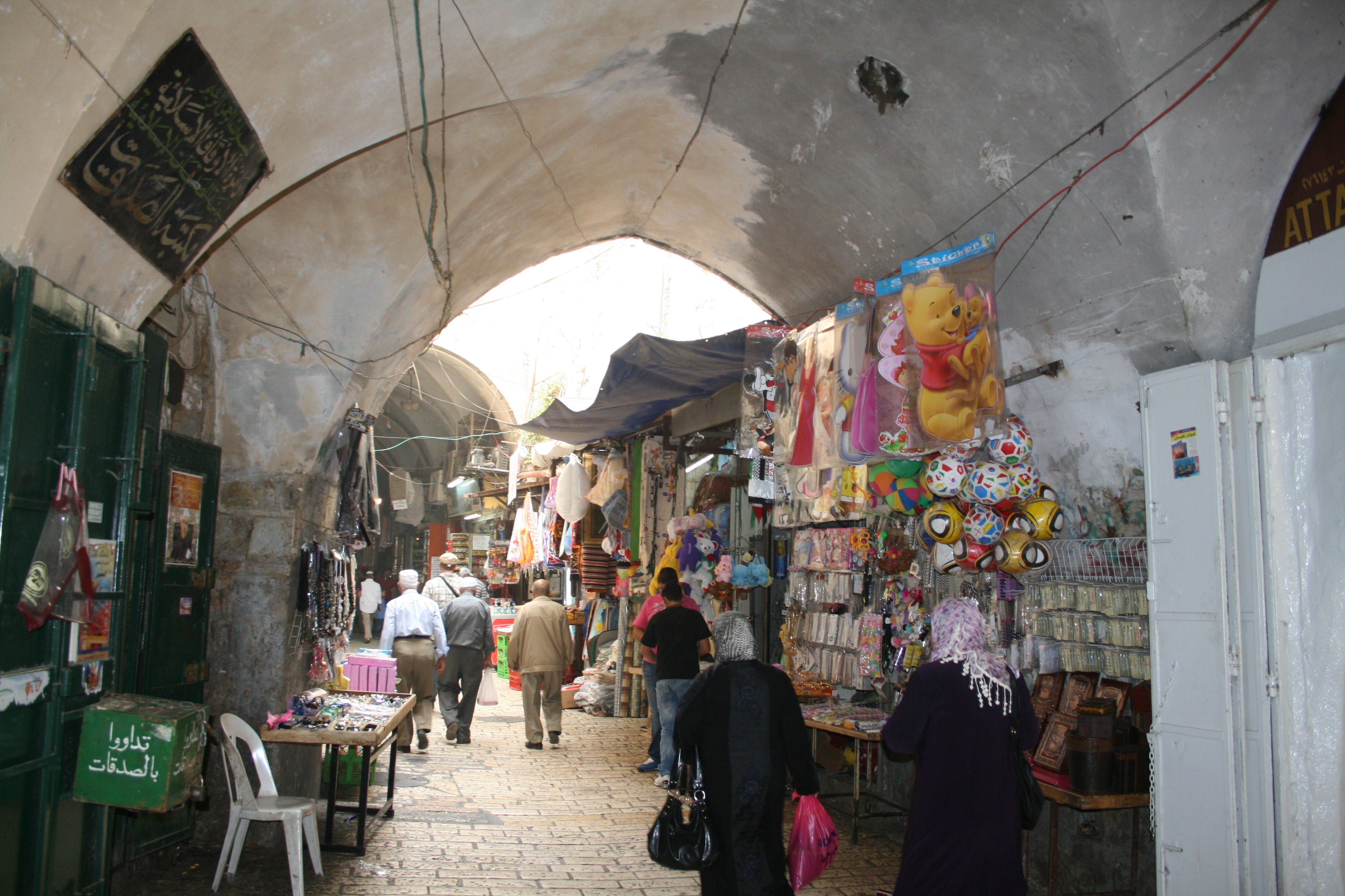 Jerusalem Old City Market, Jerusalem